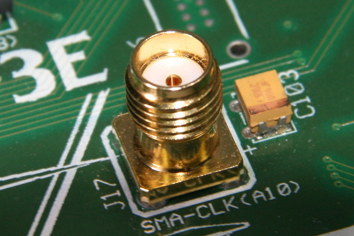 SMA Female Socket Connector in a Xilinx Spartan 3E Starter Kit Board.